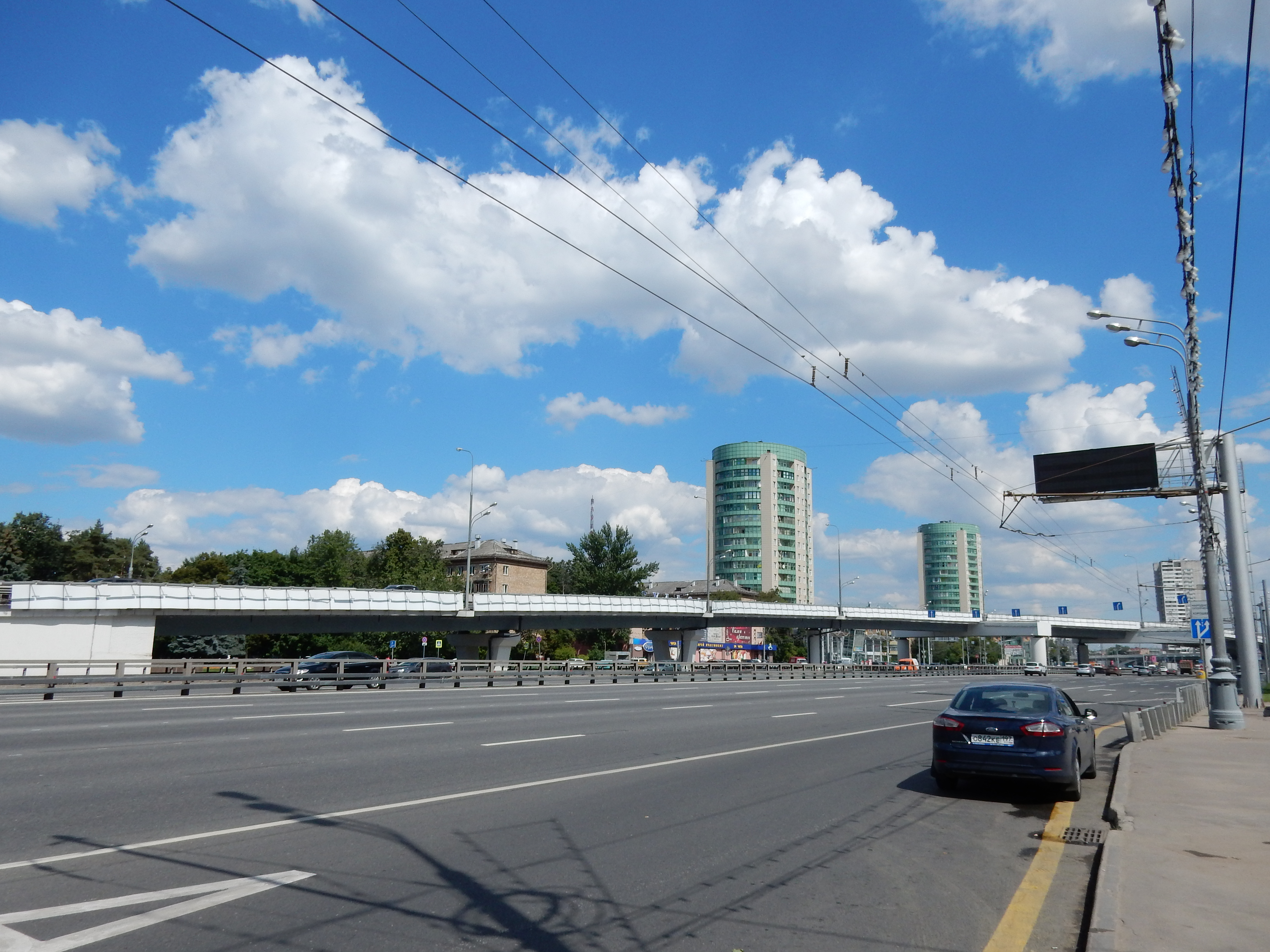 Moscow, Prospekt Marshala Zhukova, 38k1 and 30.